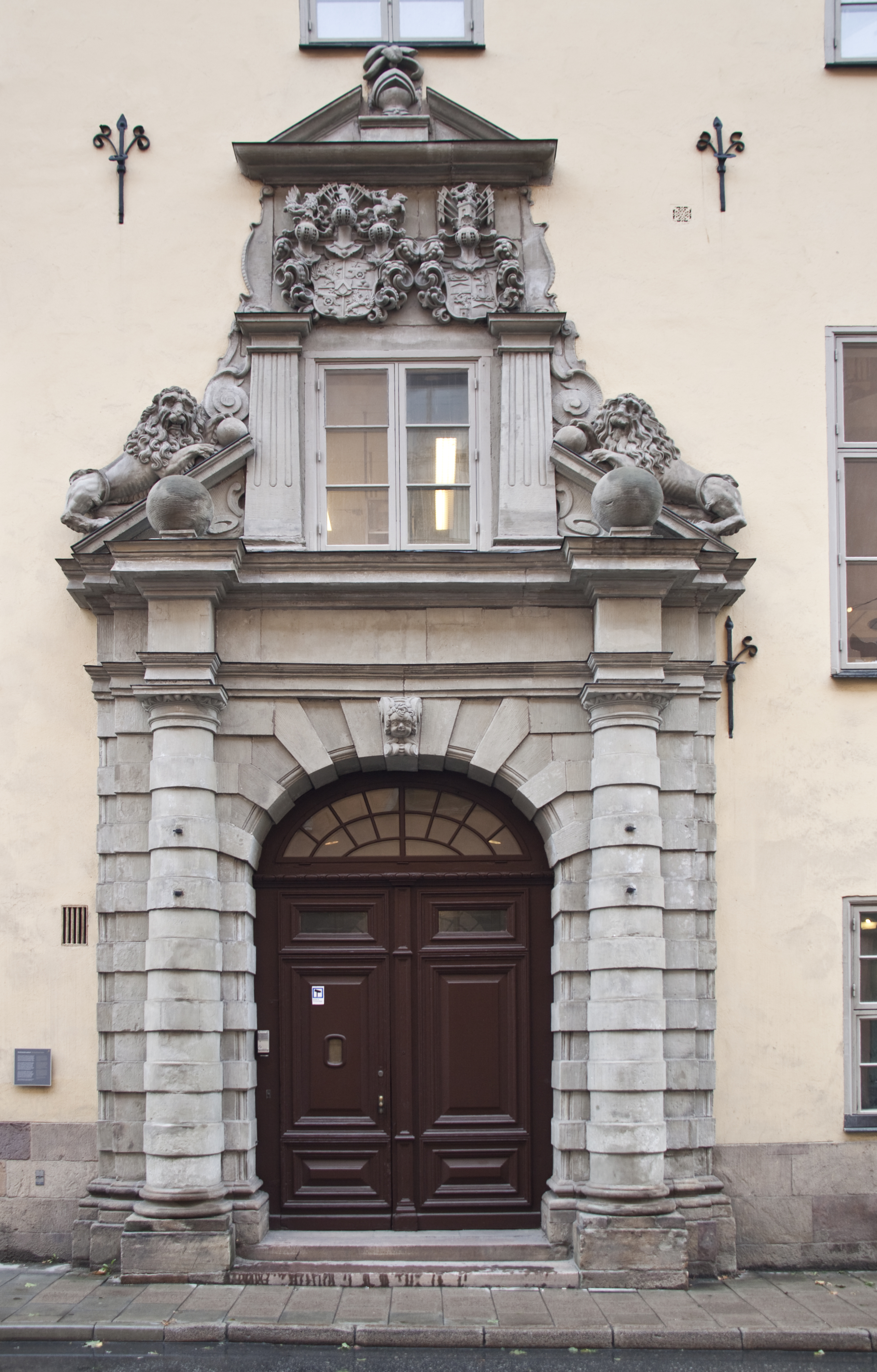 Lennart Torstensson palace, northern portal, Stockholm.